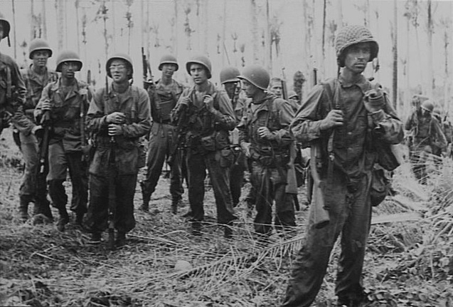 United States Army soldiers at Arawe returning from a patrol into territory which had recently been captured from the Japanese